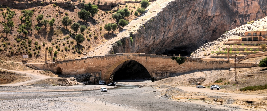 The bridge was built by four Commagenean cities in honor of the Roman Emperor Lucius Septimius Severus (193–211), his second wife Julia Domna and their sons Lucius Septimius Bassianus Caracalla and Publius Septimius Antoninius Geta as emanating from an inscription in Latin on the bridge. [Larger Version of the photo exists] Centere Bridge